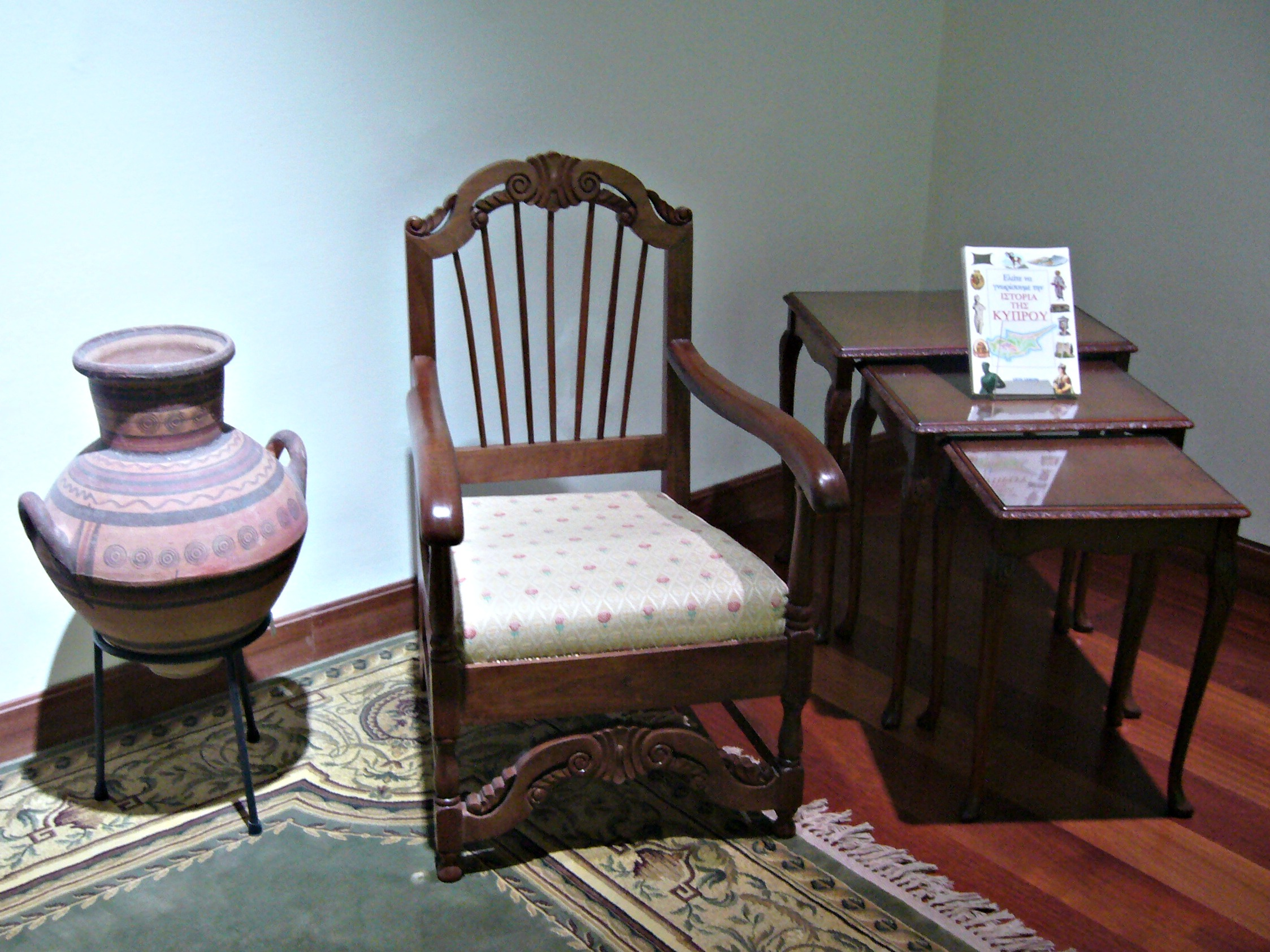 Leventis Municipal Museum, Nicosia, Cyprus - interior